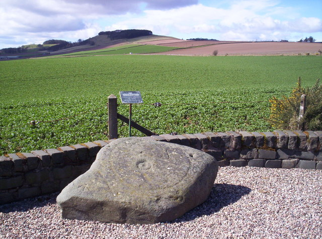 Girdlestane, a prehistoric cup and ring monument, with Dunnichen Hill Behind, near Letham, Angus